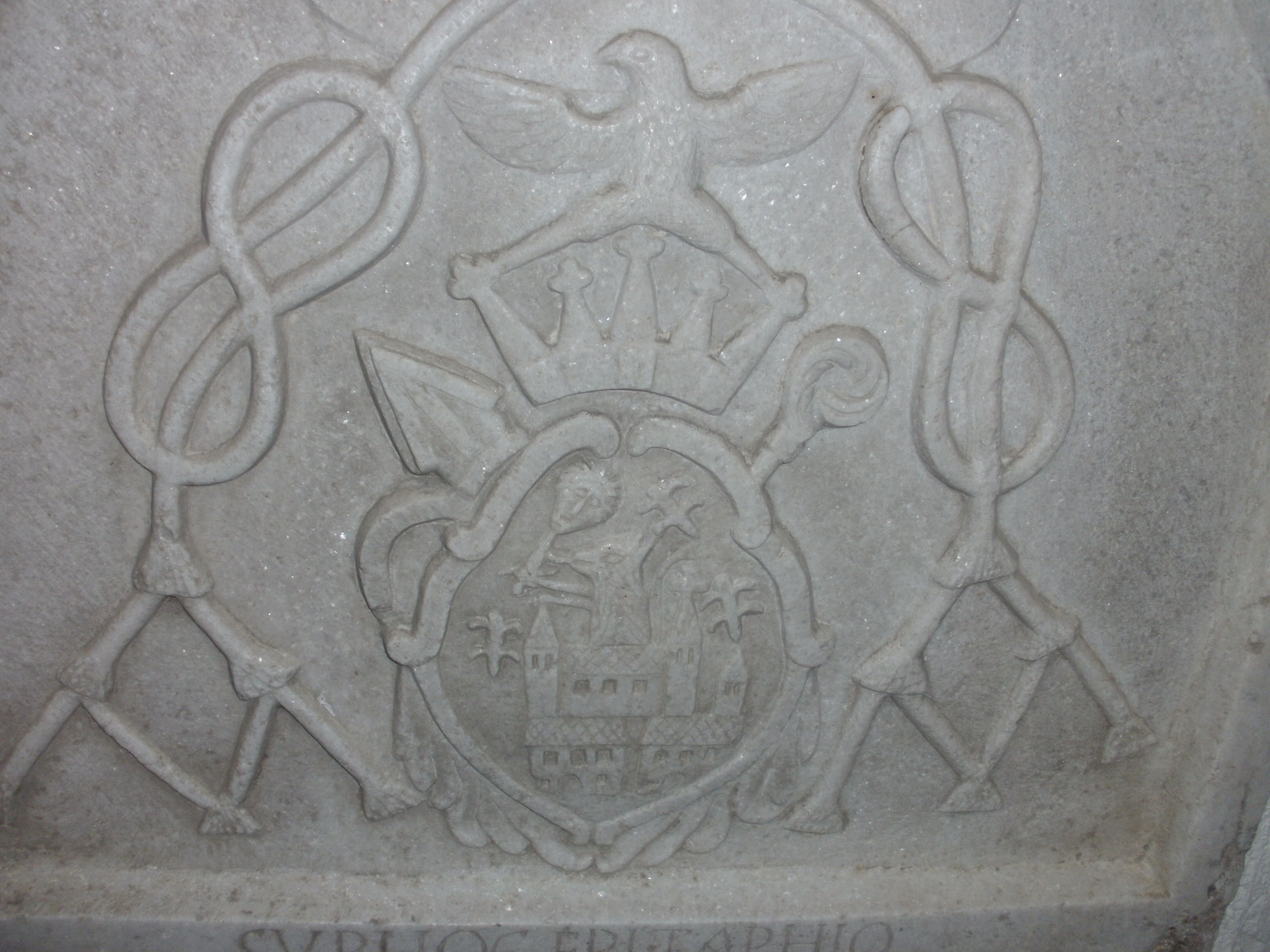 family Glavinić de Glamoć coat of arms from bishof Sebastian Glavinić de Glamoć's tomb stone